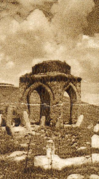 Kızlar Bey Türbe